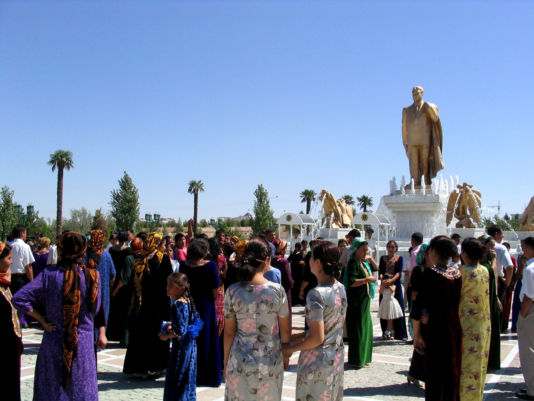 Wedding, Turkmenistan. A wedding ceremony in Ashgabad, Turkmenistan, Ashgabat.